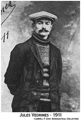 VEDRINES Jules7